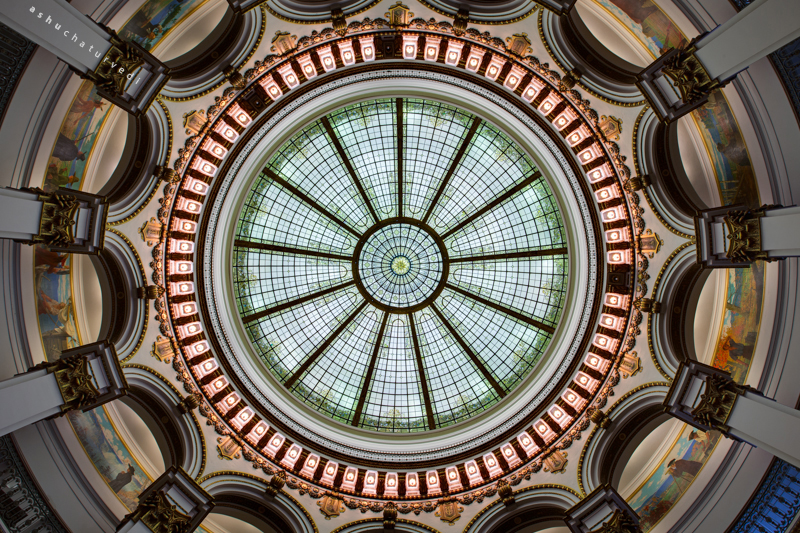 Dome and skylight of the Cleveland Trust Rotunda in downtown Cleveland